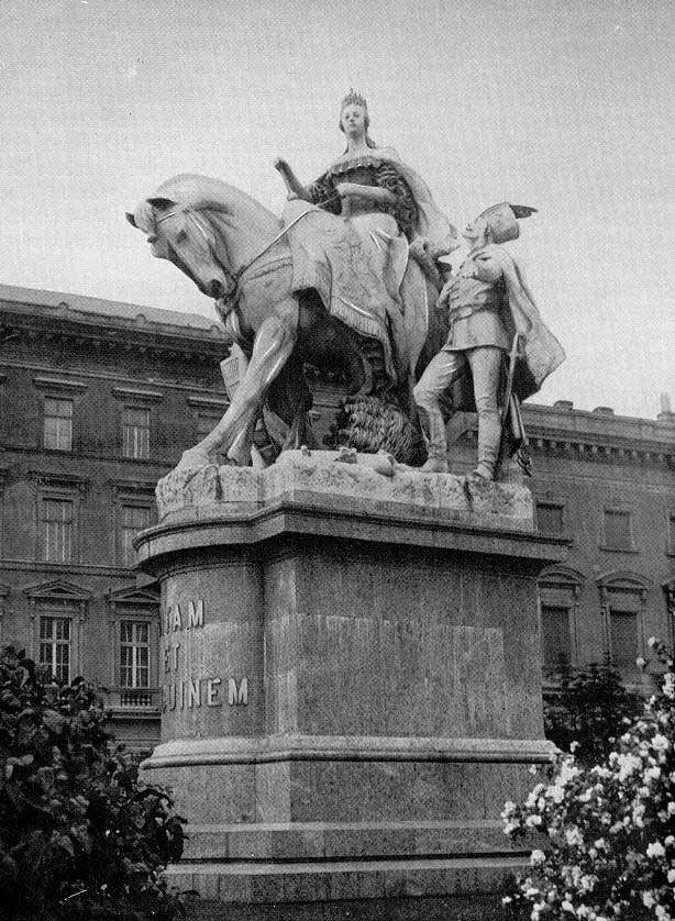 Statue of Maria Theresa in Bratislava, in place of the coronation hill. The memorial was destroyed by soldiers of the Czechoslovakian legion in 26-27 October 1921, following the city's annexation. The inscription on the pedestal reads "vitam et sanguinem" (our lives and blood).